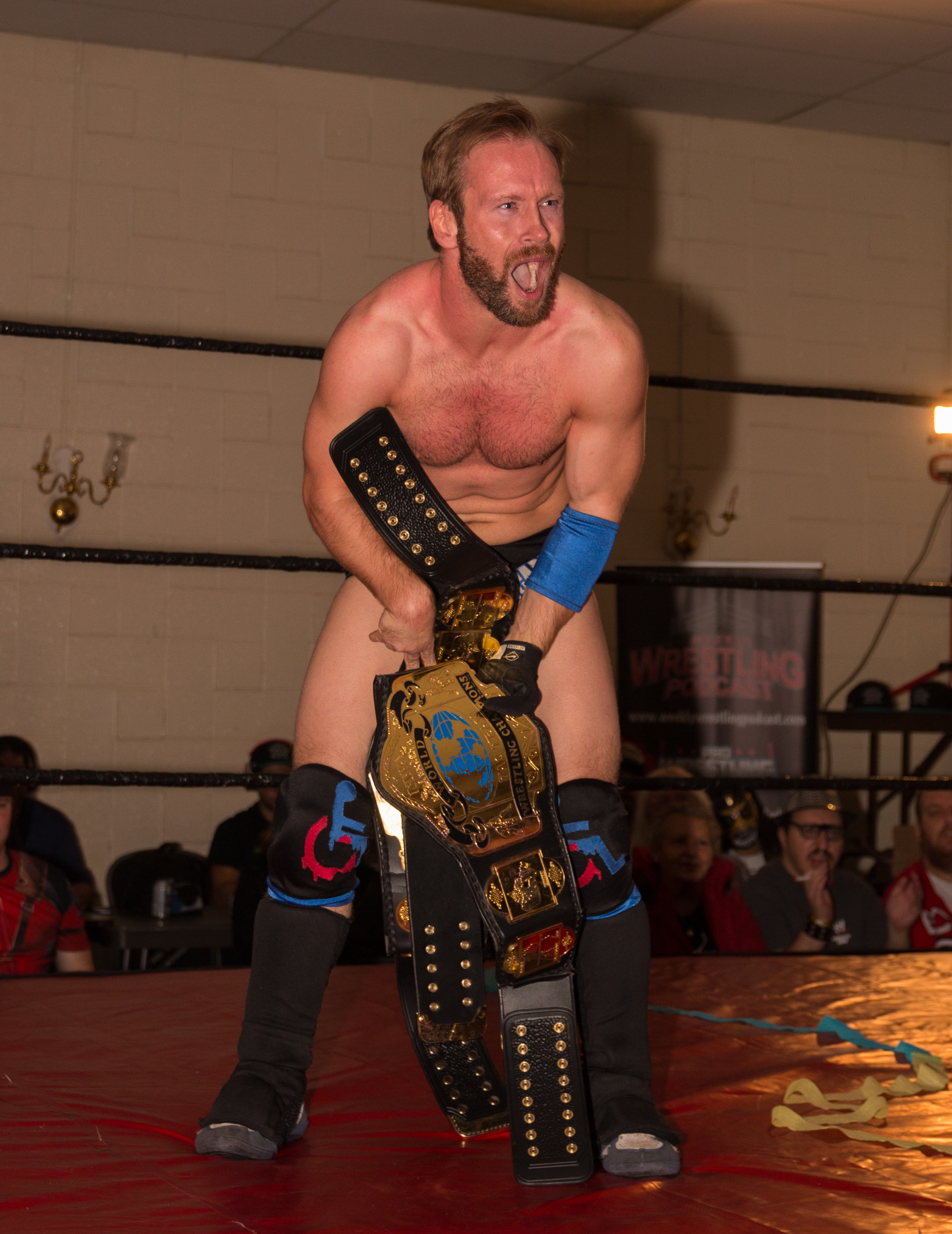 Independent wrestler Gregory Iron, holding his newly-won Alpha-1 tag team championship belt